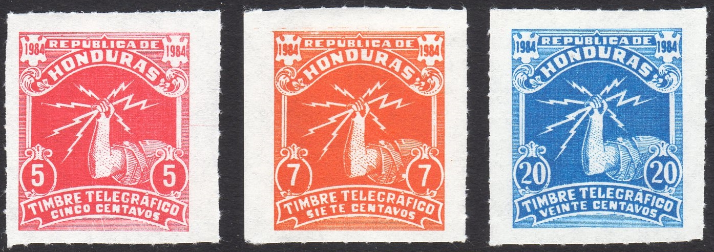 1984 telegraph stamps of Honduras based on an out of copyright 1934-38 design.